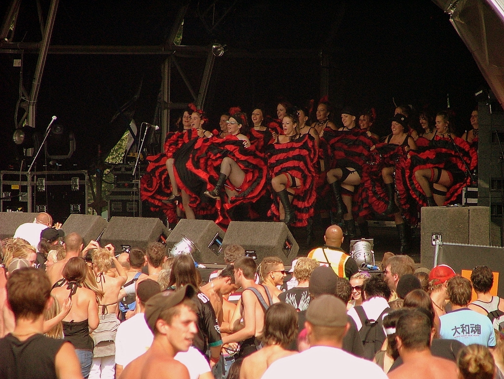 Dancing girls kick together while performing the cancan for an audience. Cancan is one of the first dances groups of people learn to do together. The beauty is the kick, performed in unison.